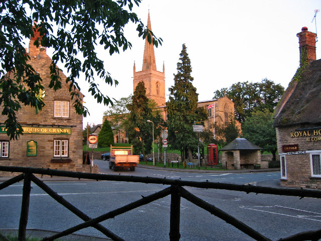 Cross roads in the centre of Waltham. The A607 runs through the centre of this village. Two pubs and the large church of St Mary Magdalene are on this busy cross roads where it meets Main Street and Goadby Lane.